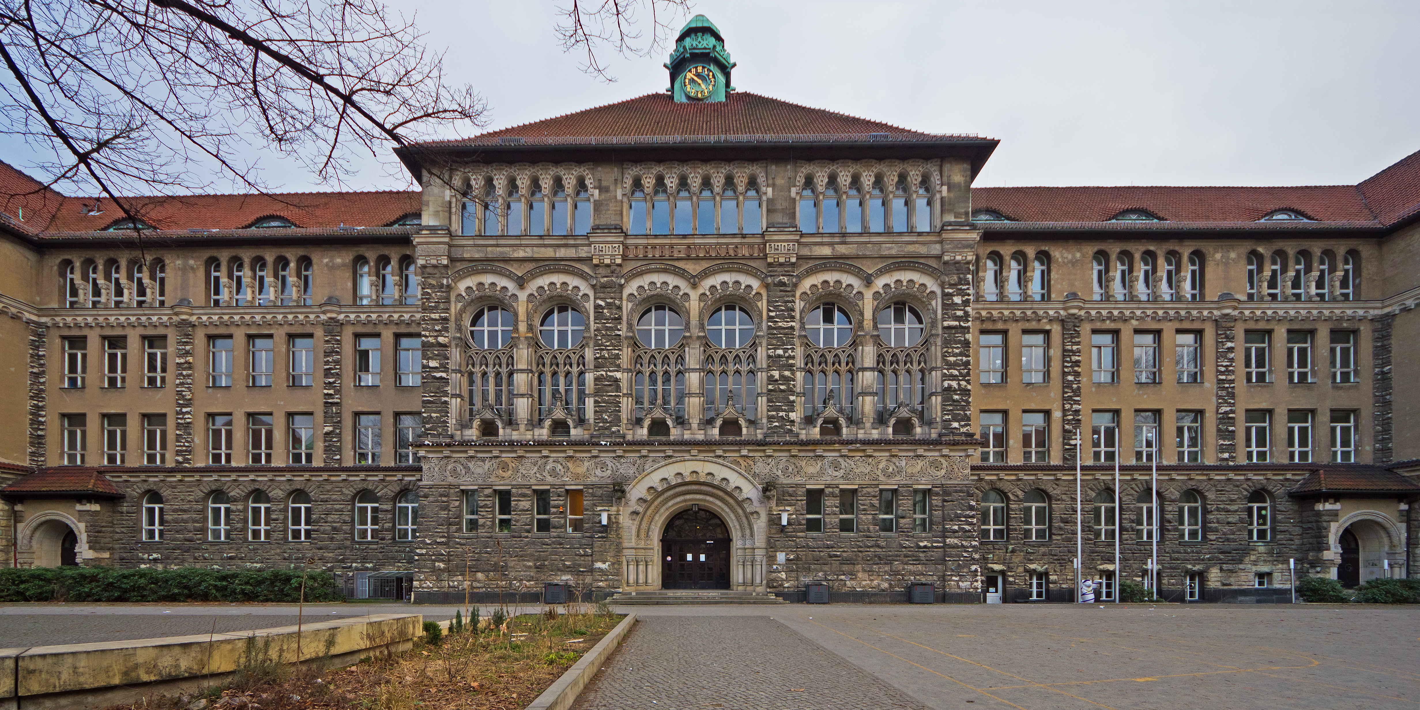 The Goethe Gymnasium in Berlin-Wilmersdorf, Germany